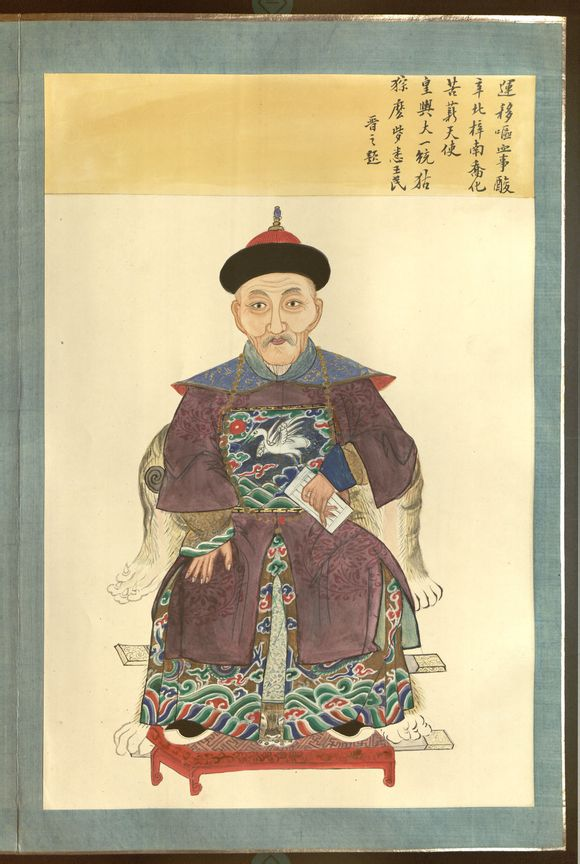 Mu Xing, a local commander of Lijiang